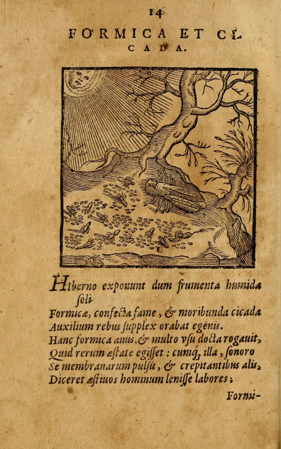 Page with illustration of the fable of the grasshopper and the ant from a German edition of 1590 Original (1590 publication date from [1])